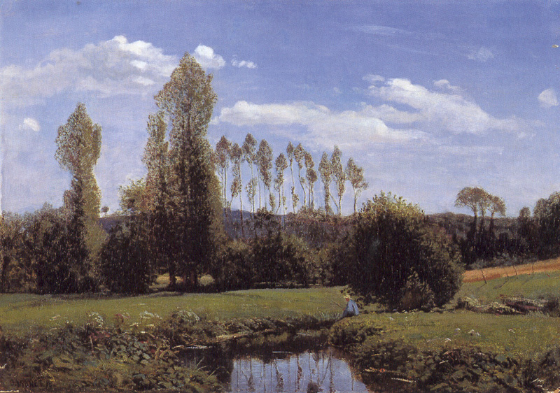 Alternative title: Vue des bords de la Lezarde (View from the banks of the Lezarde)